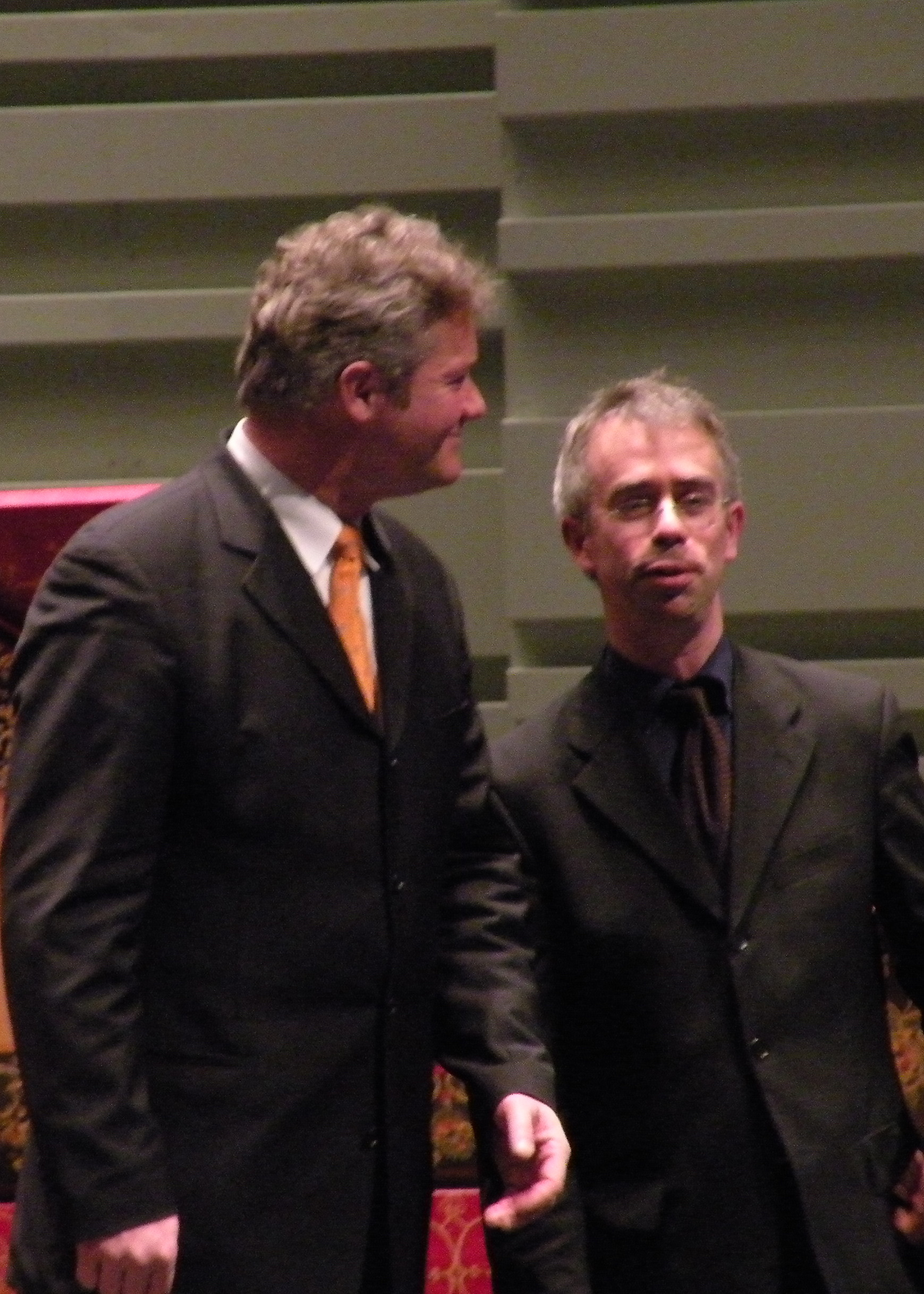 The german tenor Hans Jörg Mammel and the french conductor Pierre Hantaï, on 30 January 2009 during La Folle Journée in Nantes.